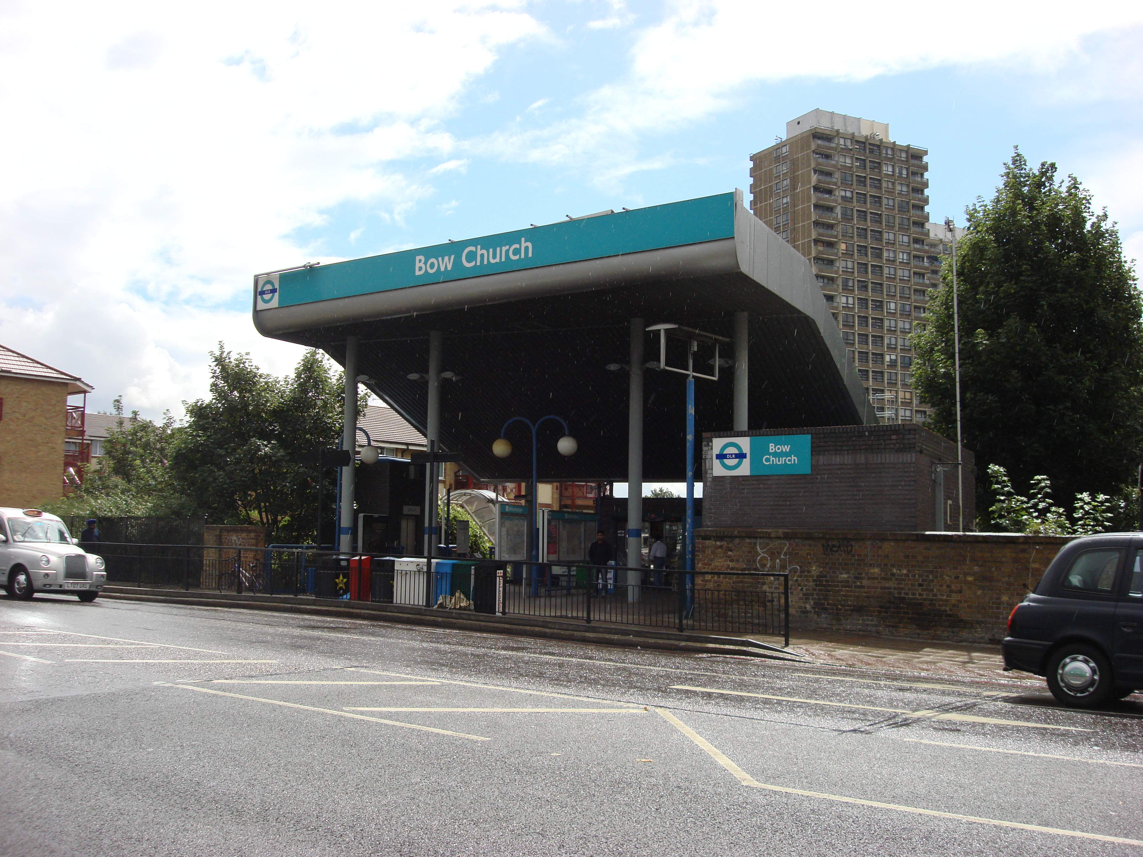 Entrance to Bow Church DLR station